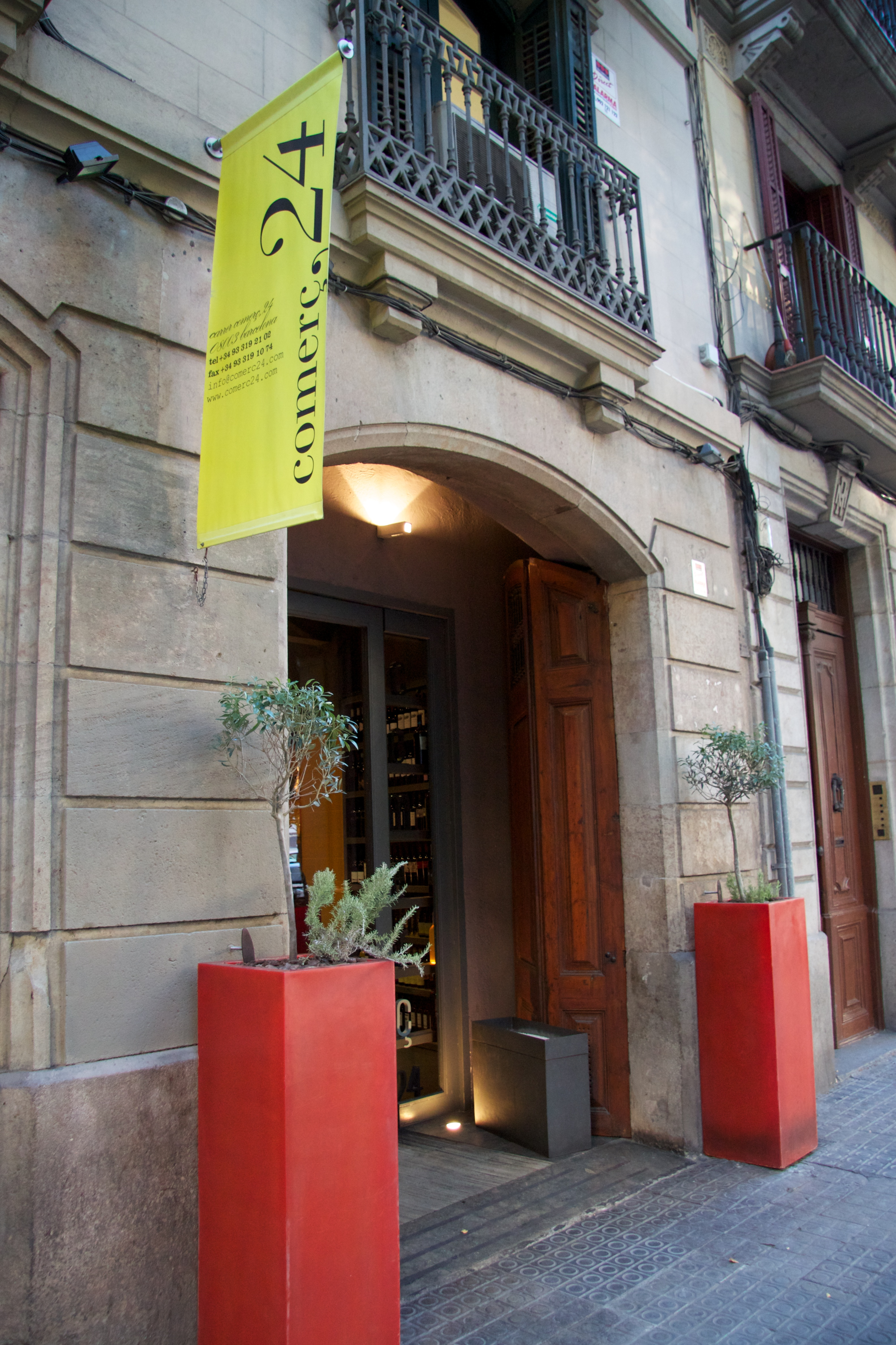 Restaurant Comerç 24, Barcelona, Catalonia